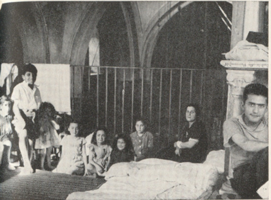 Armenian refugees from West Jerusalem sheltering in St James, May 1948.